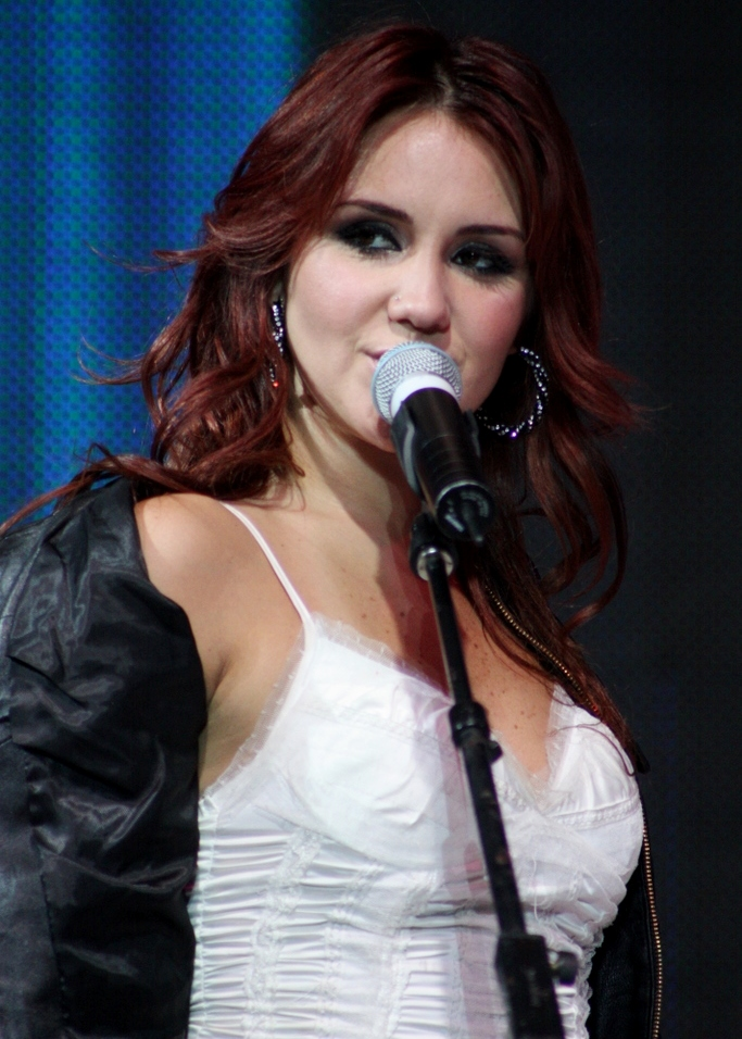 Mexican actress and musician Dulce Maria at Teleton 2011 in Mexico.